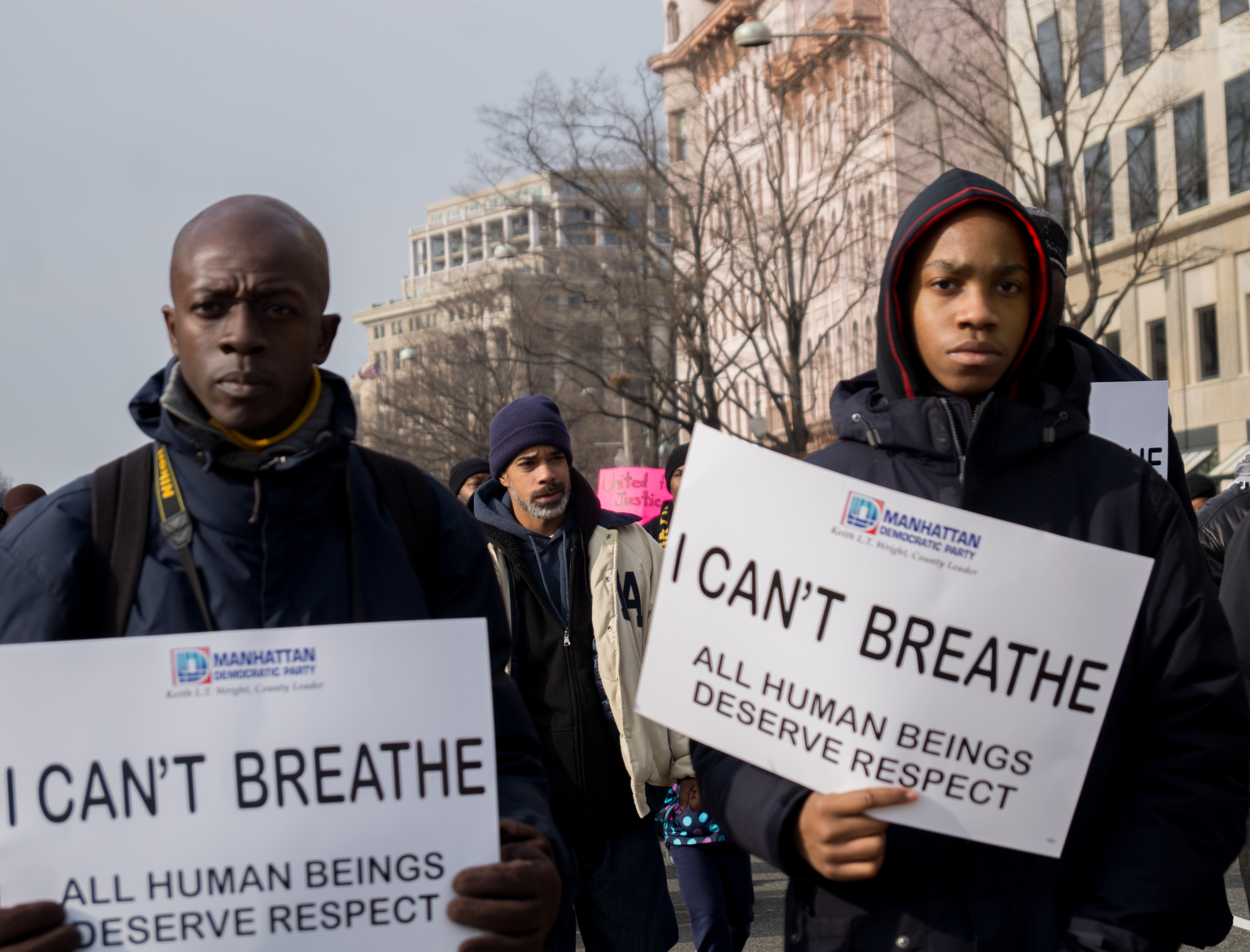 Justice for All March - Dec. 13, 2014